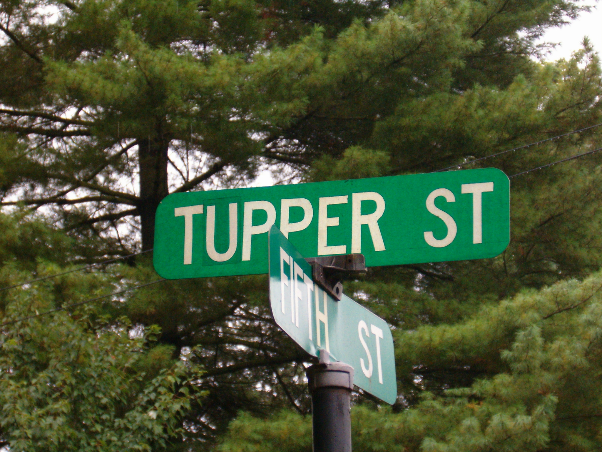 Tupper Street sign near Mound Cemetery, the burial place of Benjamin Tupper and Anselm Tupper, in Marietta, Ohio, August 2008. I took this photo and release to the public domain. ColWilliam (talk) 00:23, 1 September 2008 (UTC)